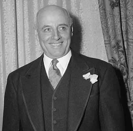 Kentucky Congressman Andrew J. May